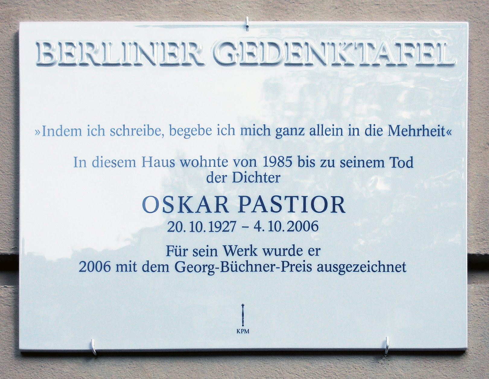 Berlin memorial plaque, Oskar Pastior, Schlüterstraße 53, Berlin-Charlottenburg, Germany Koordinate:52°30′13″N 13°19′3″E / 52.50361°N 13.3175°E